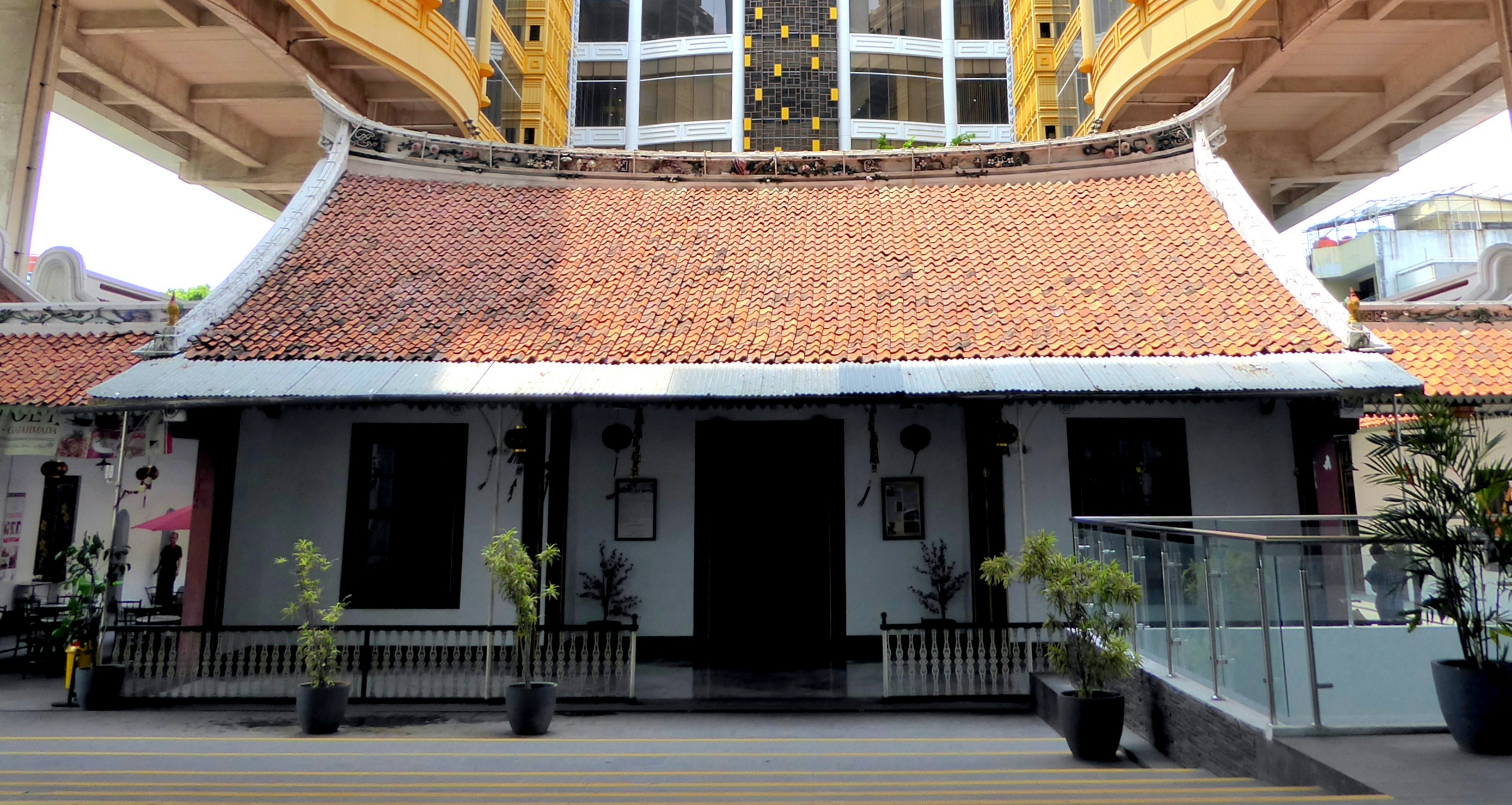 002 Front View, Chandra Naya, Jakarta, Java